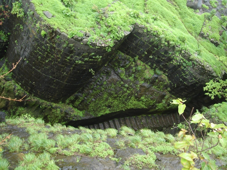 Entrance and Stairway of Sudhagad fort, Maharashtra, India